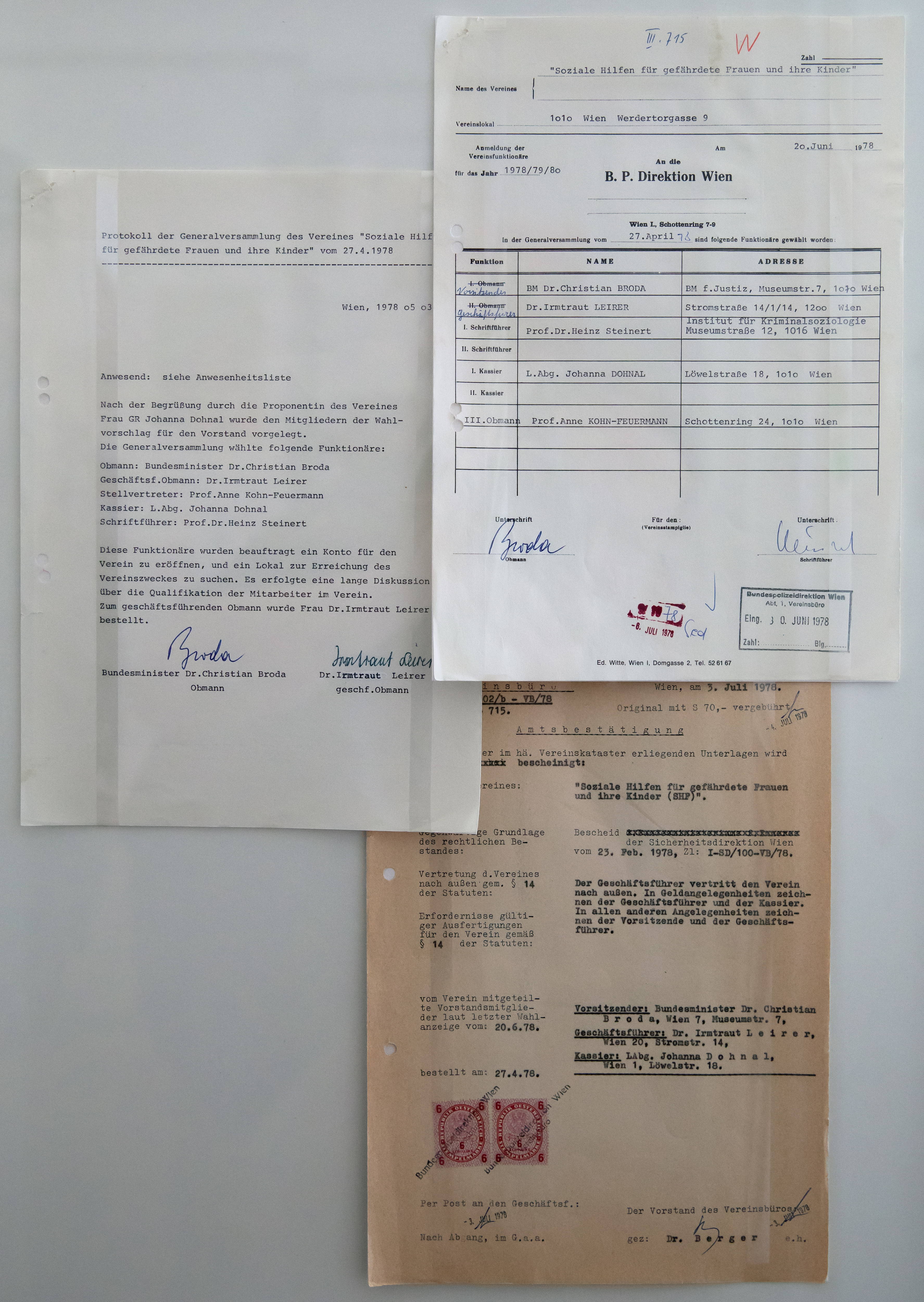 Founding documents of the association Soziale Hilfen für gefährdete Frauen und Kinder (Social Help for Women and Children in Danger) from 1978, founder of the first women's shelters in Austria, at an exhibition at the Austrian Museum of Folk Life and Folk Art at Palais Schönborn, Vienna, Austria.